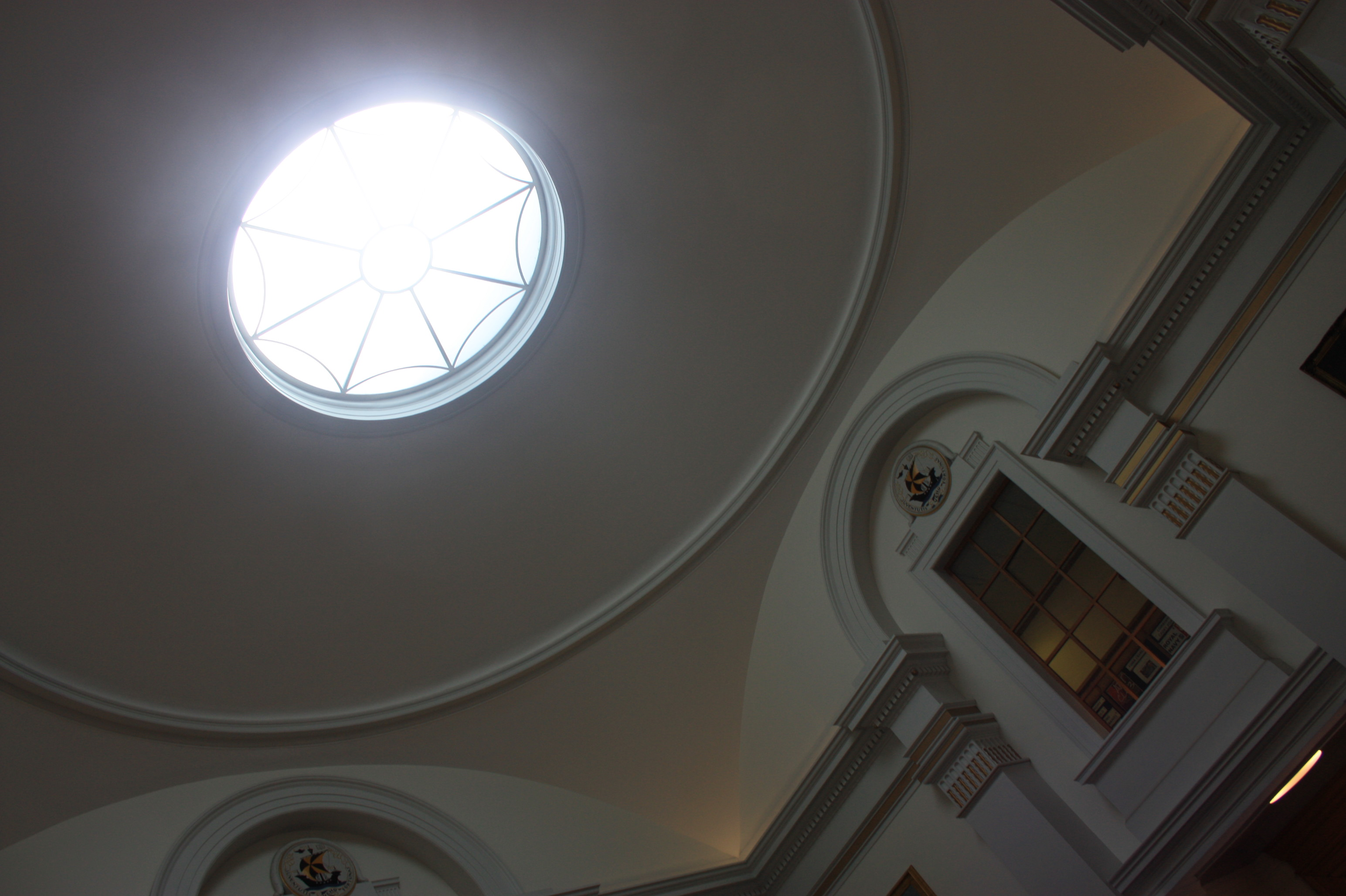 The library dome, Dollar Academy